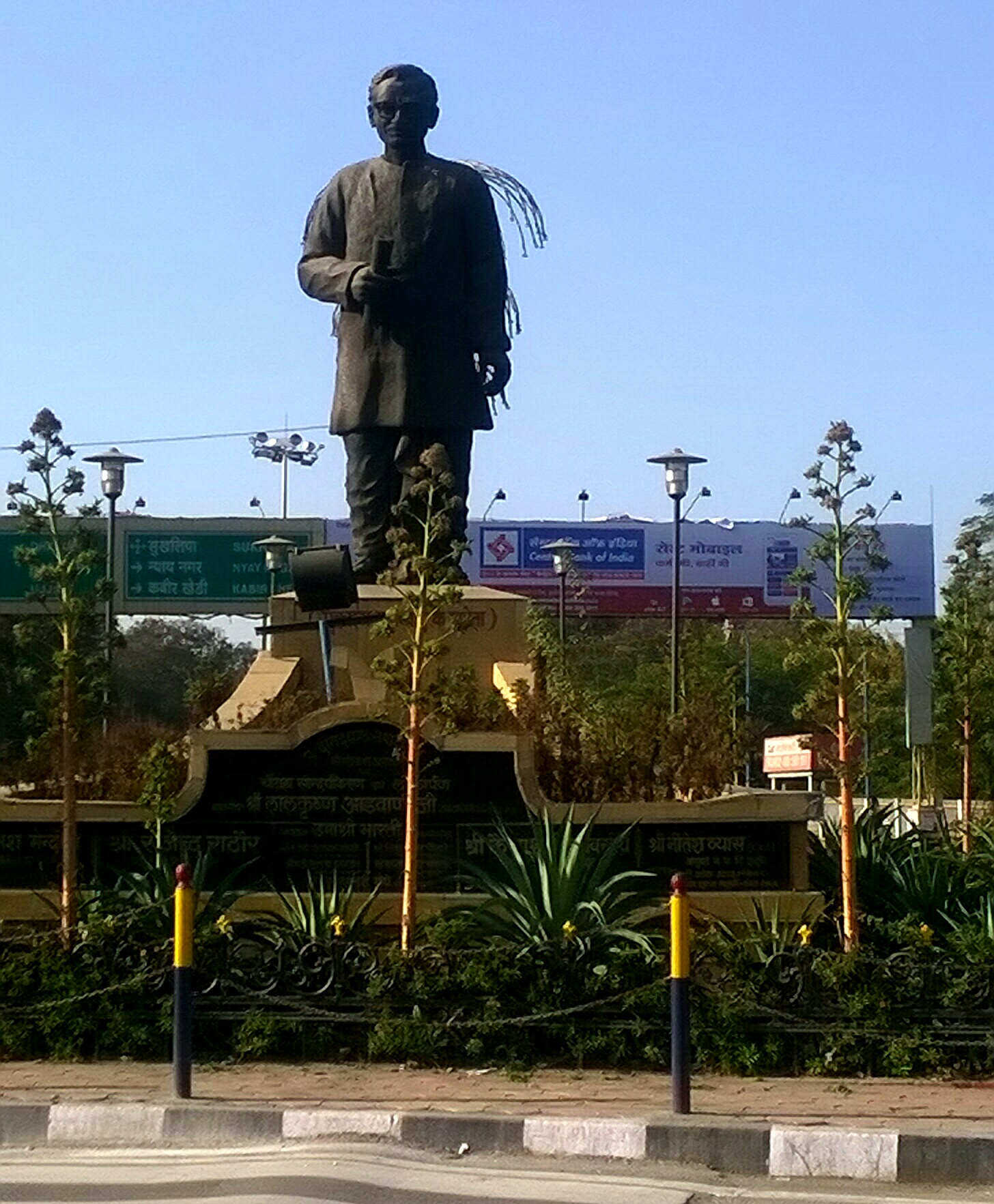 Image of Pt. Deendayal Upadhyay statue at Pt. Deendayal Upadhyay Square (Bapat Square), Sukhliya - Indore. Picture by Vedansh Sharma/Vivek Tiwari